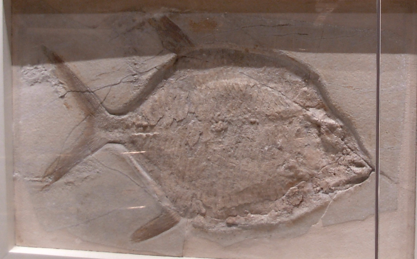 A fossil Gyrodus circularis from the Solnhofen limestones of Germany. Carnegie Museum of Natural History #cm4407